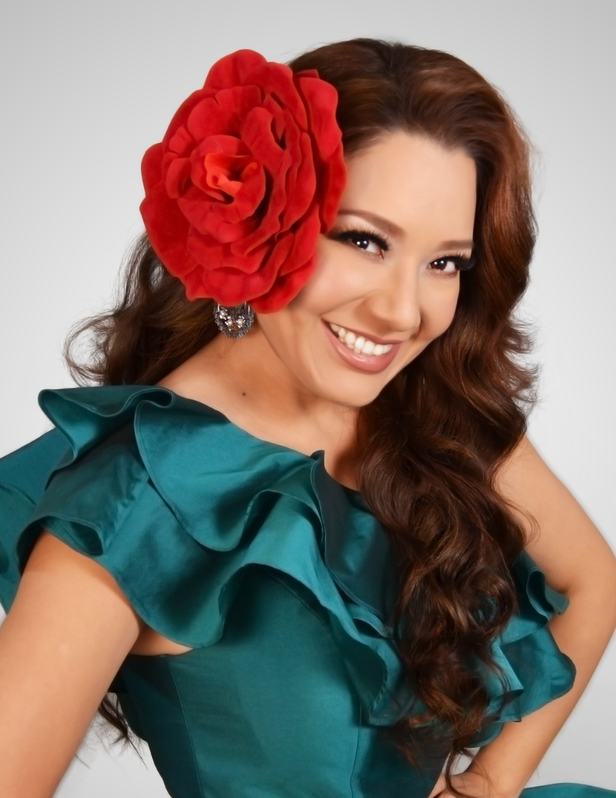 Nadia Singer of mariachi music. Grammy nominee.